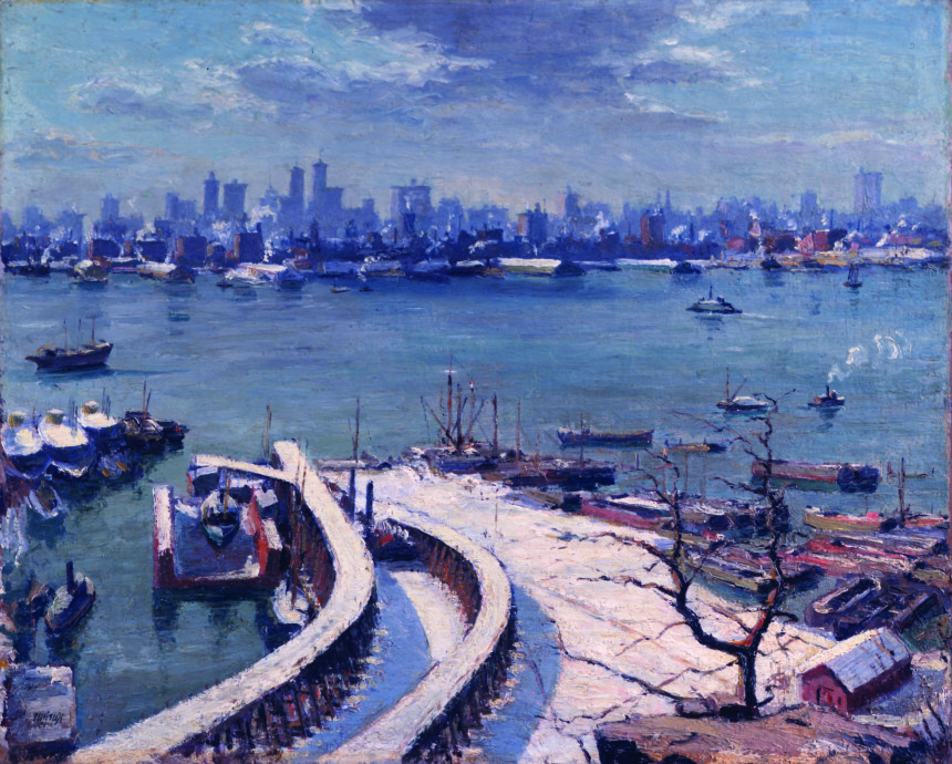 Osilas Gallary